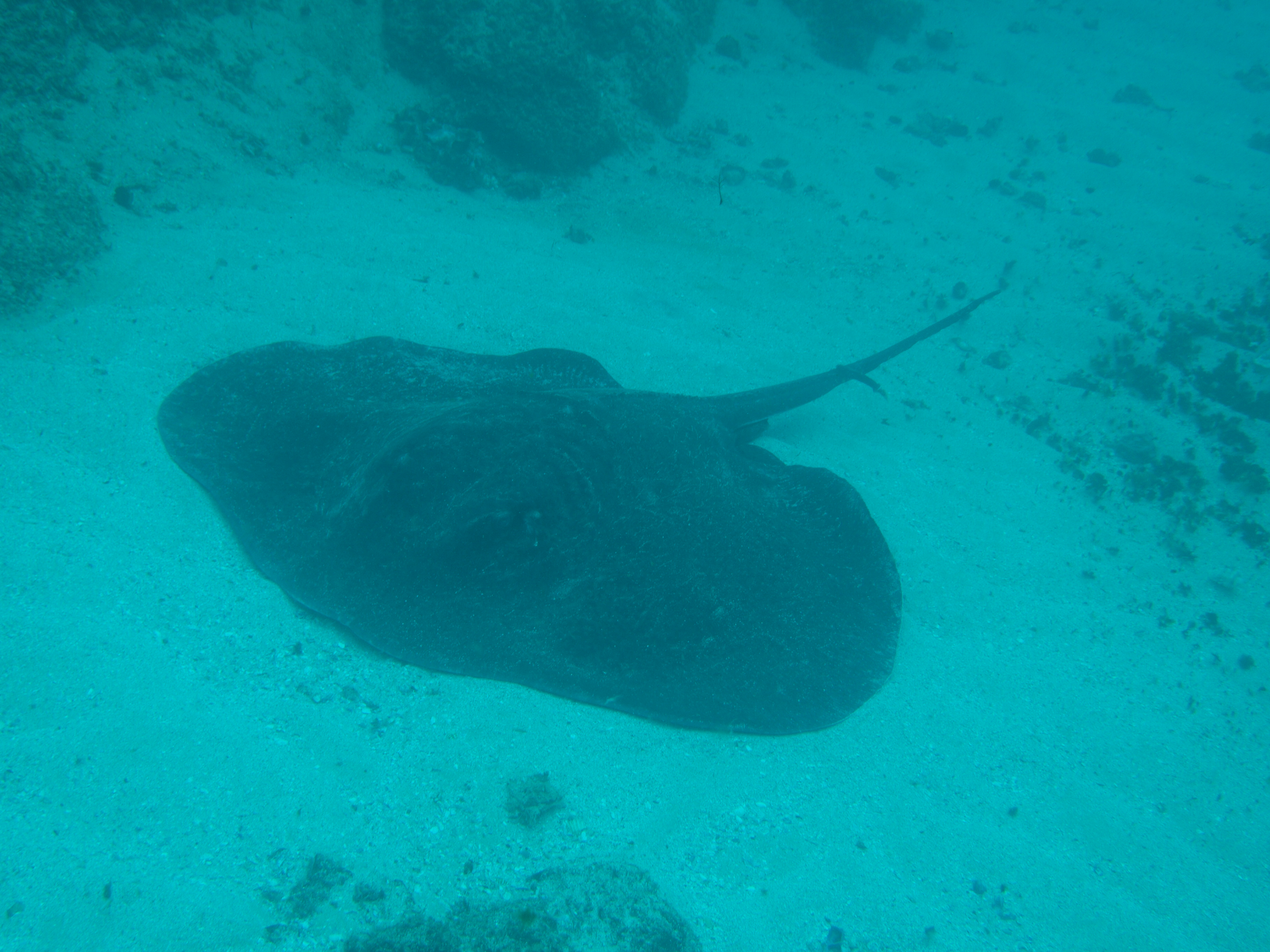 Thorntail stingray (Dasyatis thetidis) in Byron Bay